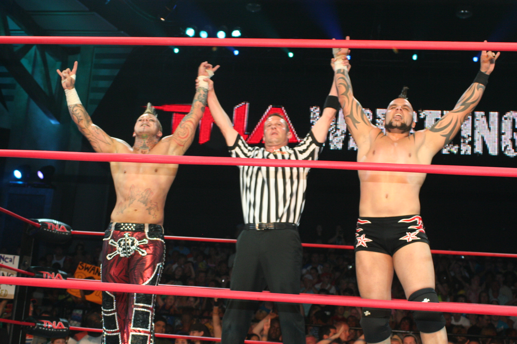 Professional wrestlers Jesse Neal and Shannon Moore, collectively known as "Ink Inc", at a TNA Impact! taping.